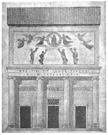 Depiction of the facade of the church of S. Maria in Turri as described in the ancient sources.